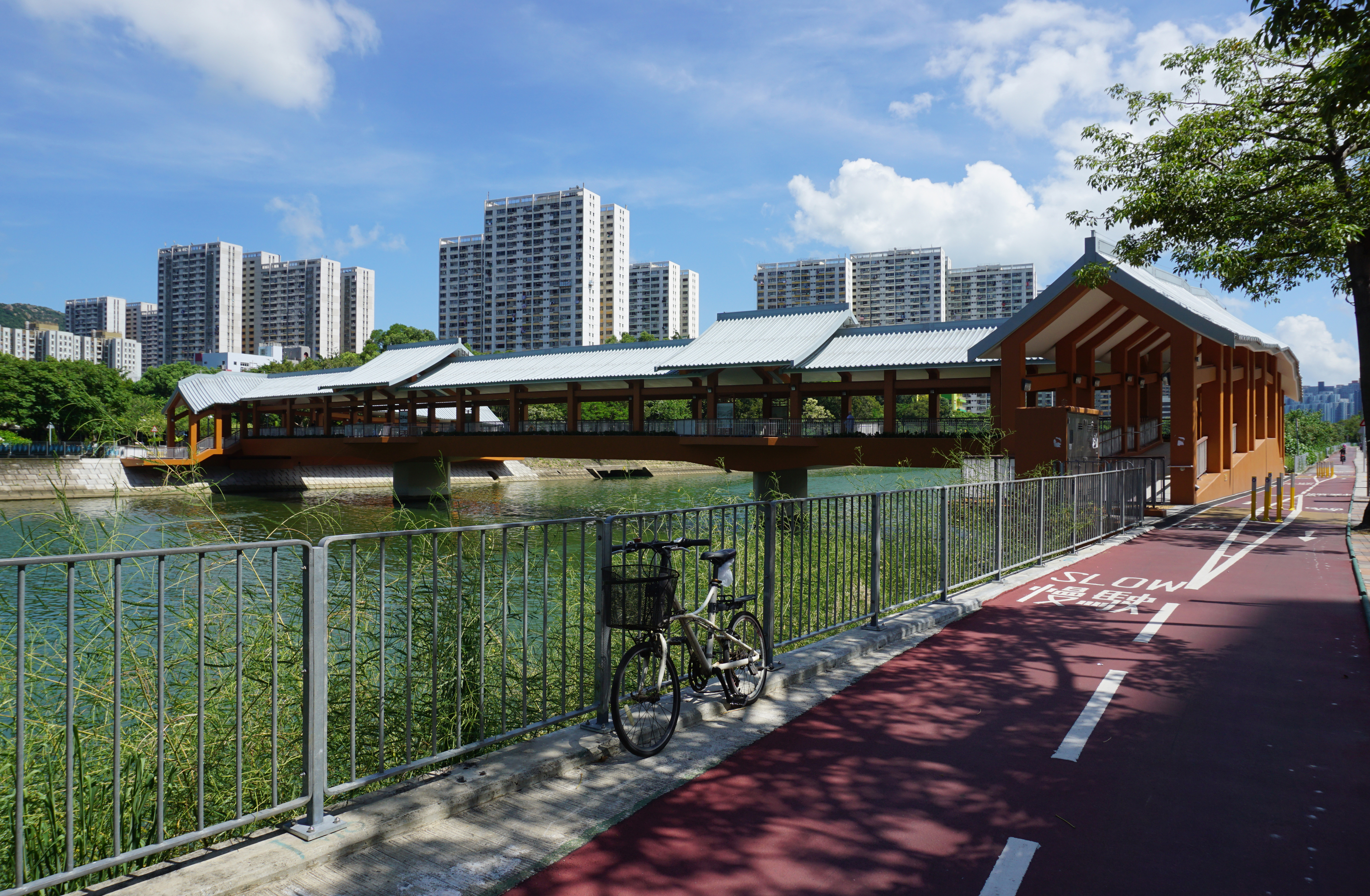 Tuen Mun River in Tuen Mun, Hong Kong.